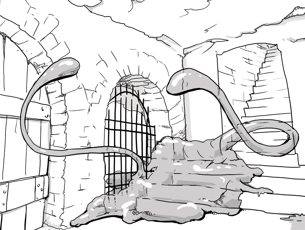 another of the ooze family